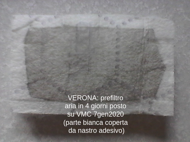 07 01 2020 - VERONA SMOG - prefiltro (filtro cappa antigrasso, grease filter hood) su VMC (ventilazione meccanizzata controllata) dopo 4 giorni (after 4 days), parte bianca coperta da nastro adesivo (white surface was cover) - 2020 01 07 - photo Paolo Villa